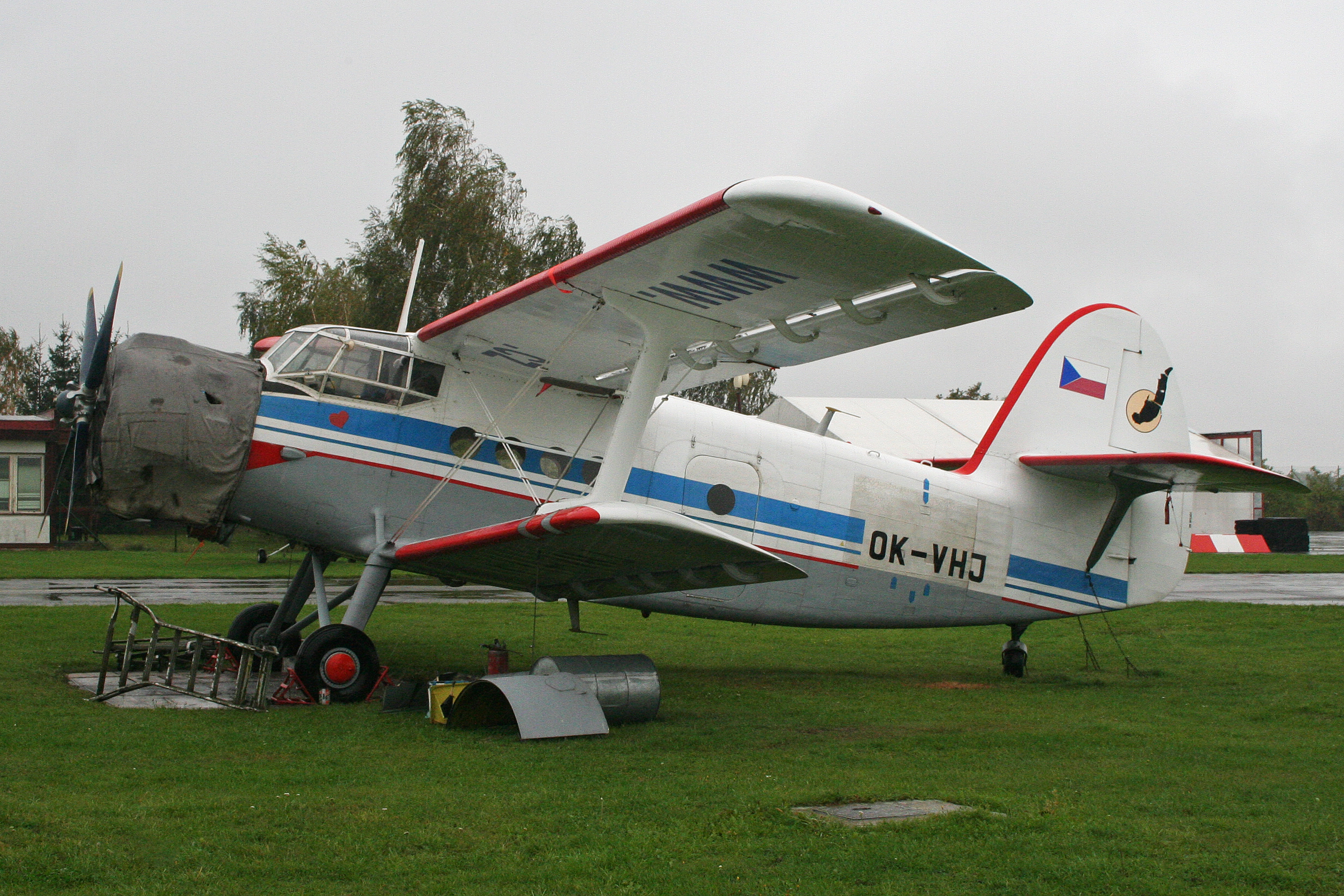 Operated by Skydive & Air Service, this An-2 was undergoing engine maintenance later in the day. msn 1G234-02. Letnany, Czech Republic. 07-11-2012